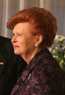 Vaira Vīķe-Freiberga, President of Latvia. Cropped from Image:Freiberga and W.Bush.jpg